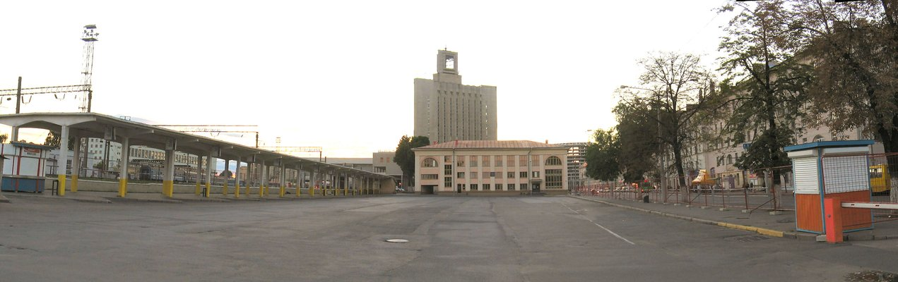 Centralny bus station in Minsk before deconstruction in September, 2007.